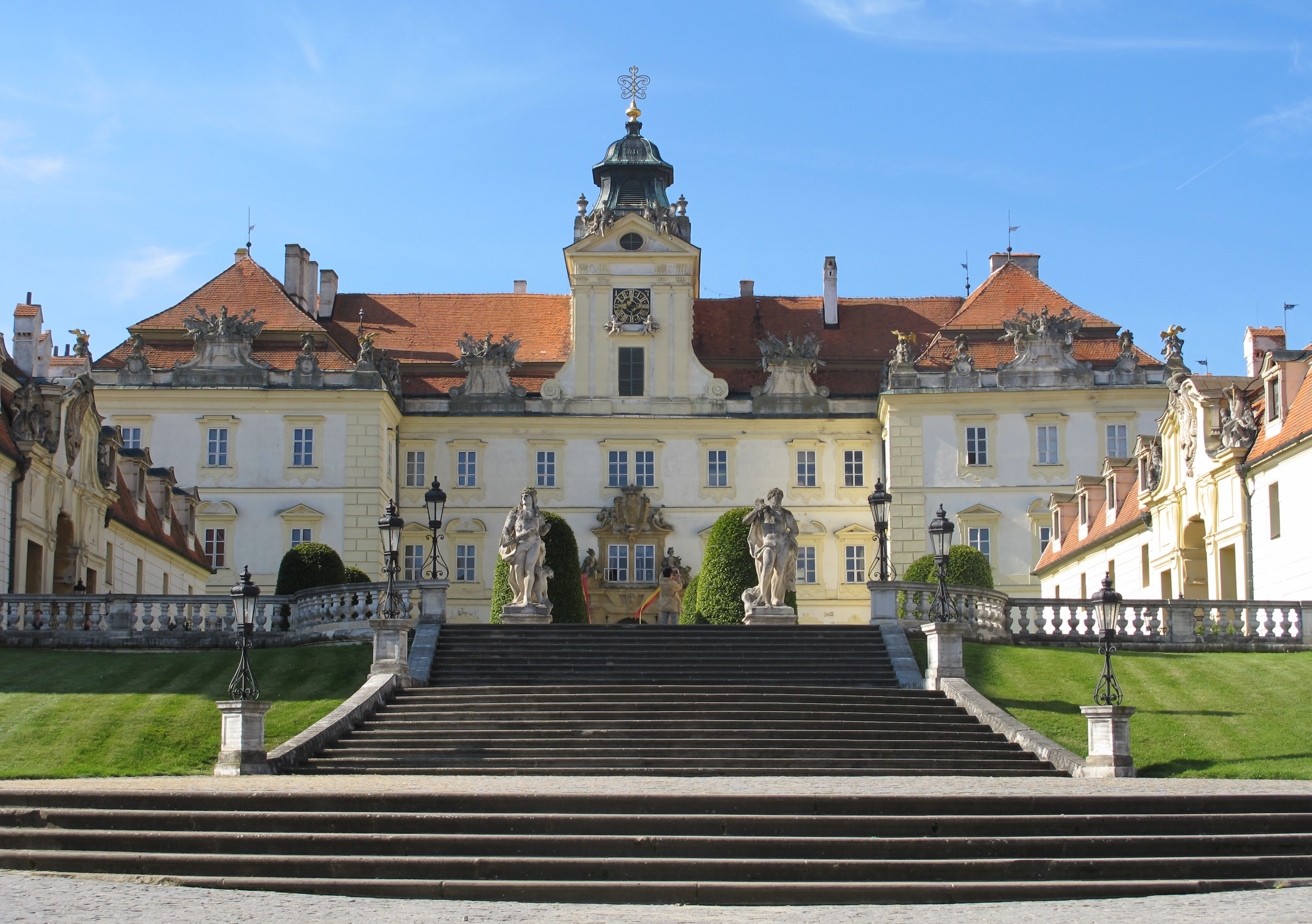 Castle (or chateau) in Valtice, Břeclav District